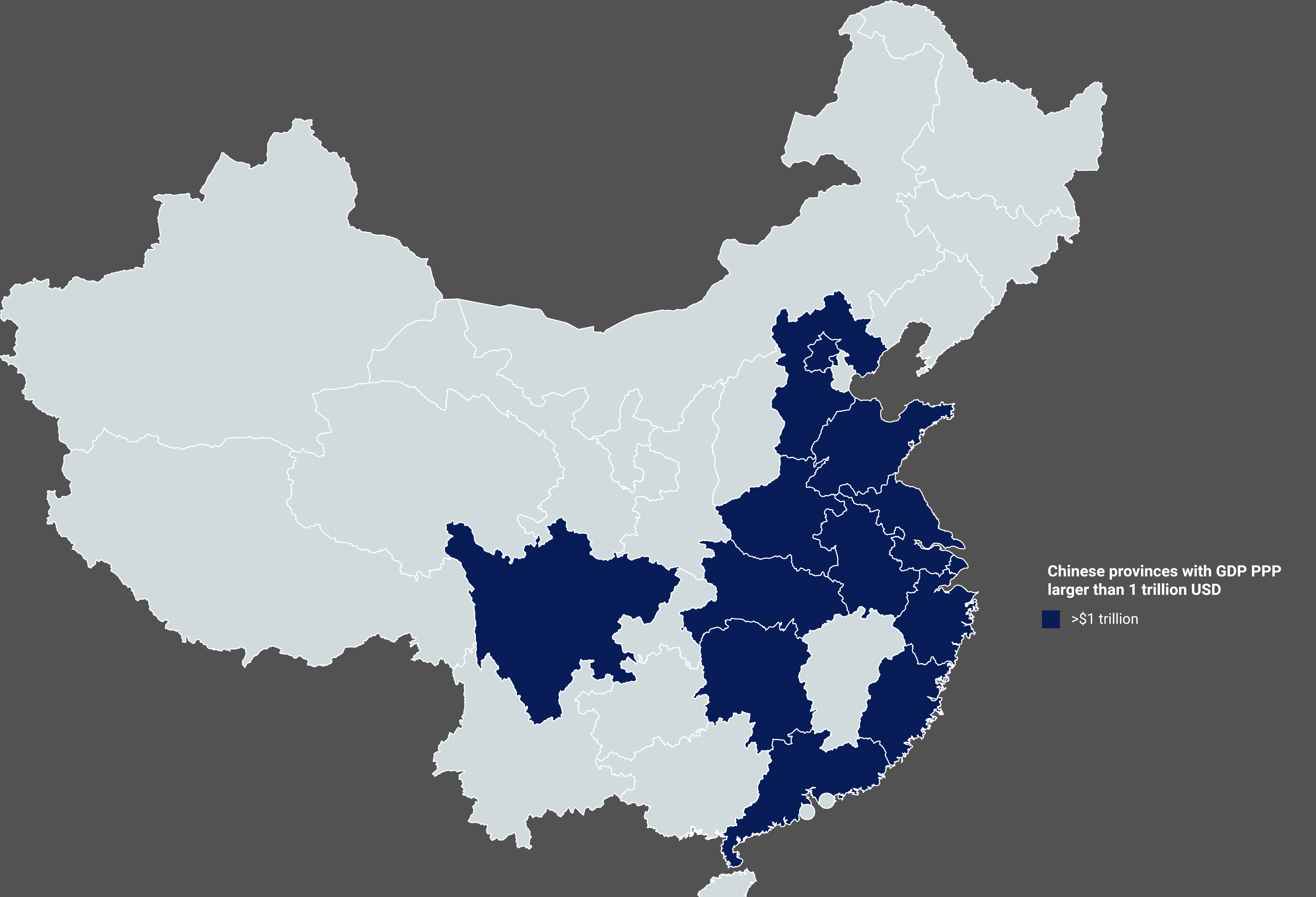 Chinese provinces with GDP PPP larger than 1 trillion USD